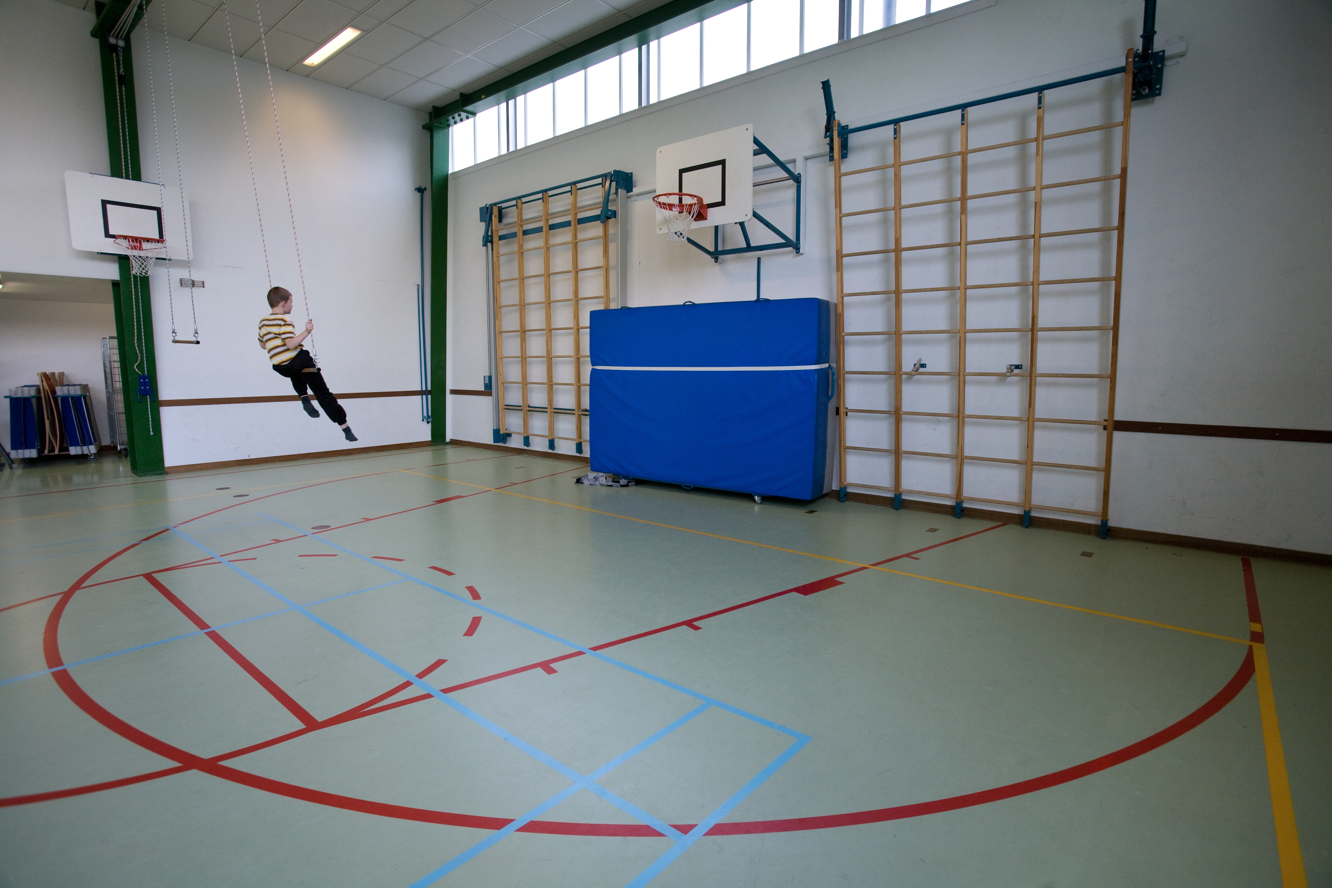 A boy dangling on a swing in a Gym. Amsterdam, The Netherlands